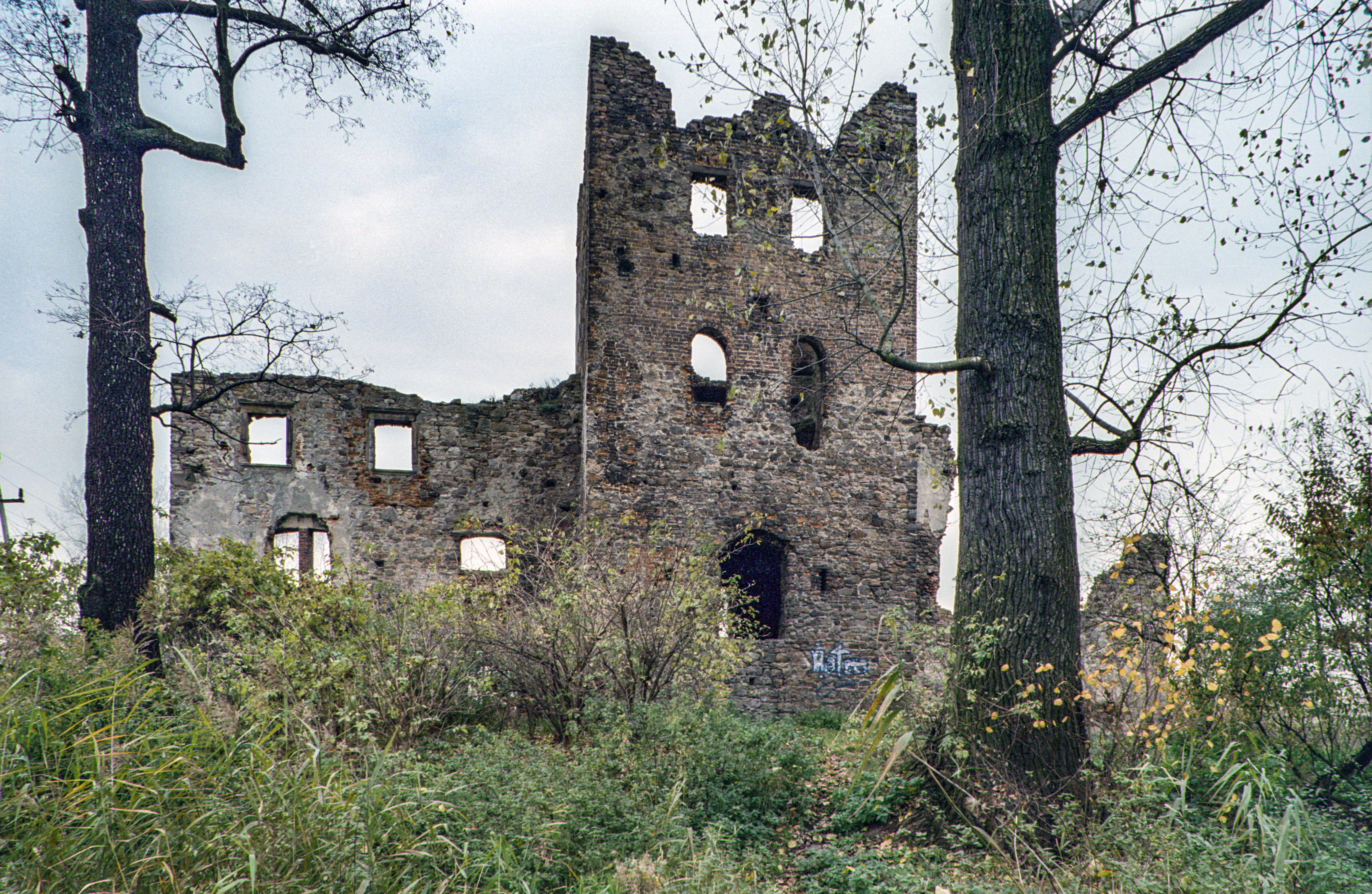 Chudów Castle ruin in Chudów village, Upper Silesia. In 1995 the newly founded Chudów Castle Foundation has since began gradual castle restoration and reconstruction work.